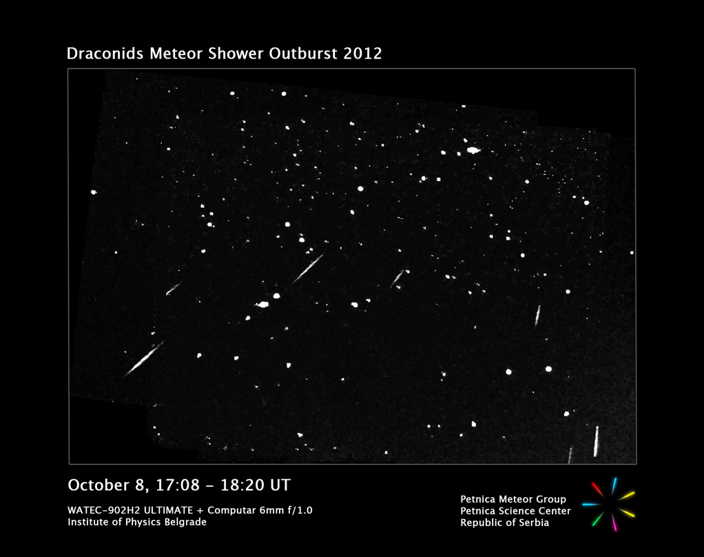 Composite image of Draconid meteors taken from Petnica Meteor Group ( video camera stationed at Institute of Physics, Belgrade. The video source was taken from 17.08 to 18.20 UT 2012-10-08 Српски (ћирилица): Композитна слика Драконида коју је снимила видео-камера Петничке метеорске групе ( постављена на Институту за физику у Земуну. Снимак је начињен од 17.08 до 18.20 по универзалном времену 8. октобра 2012.